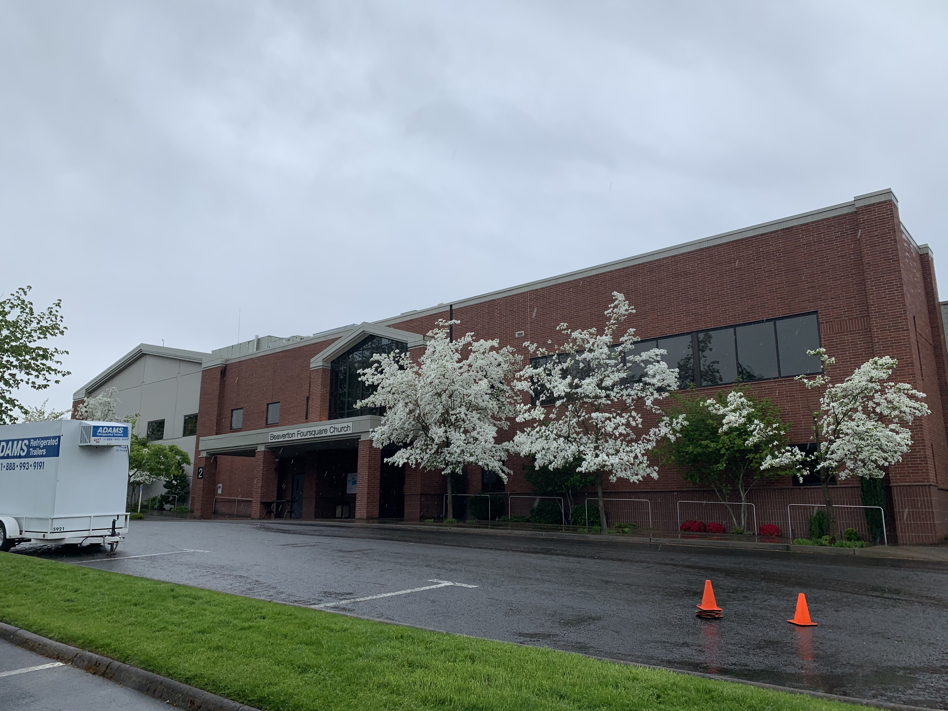 Taken May 2020